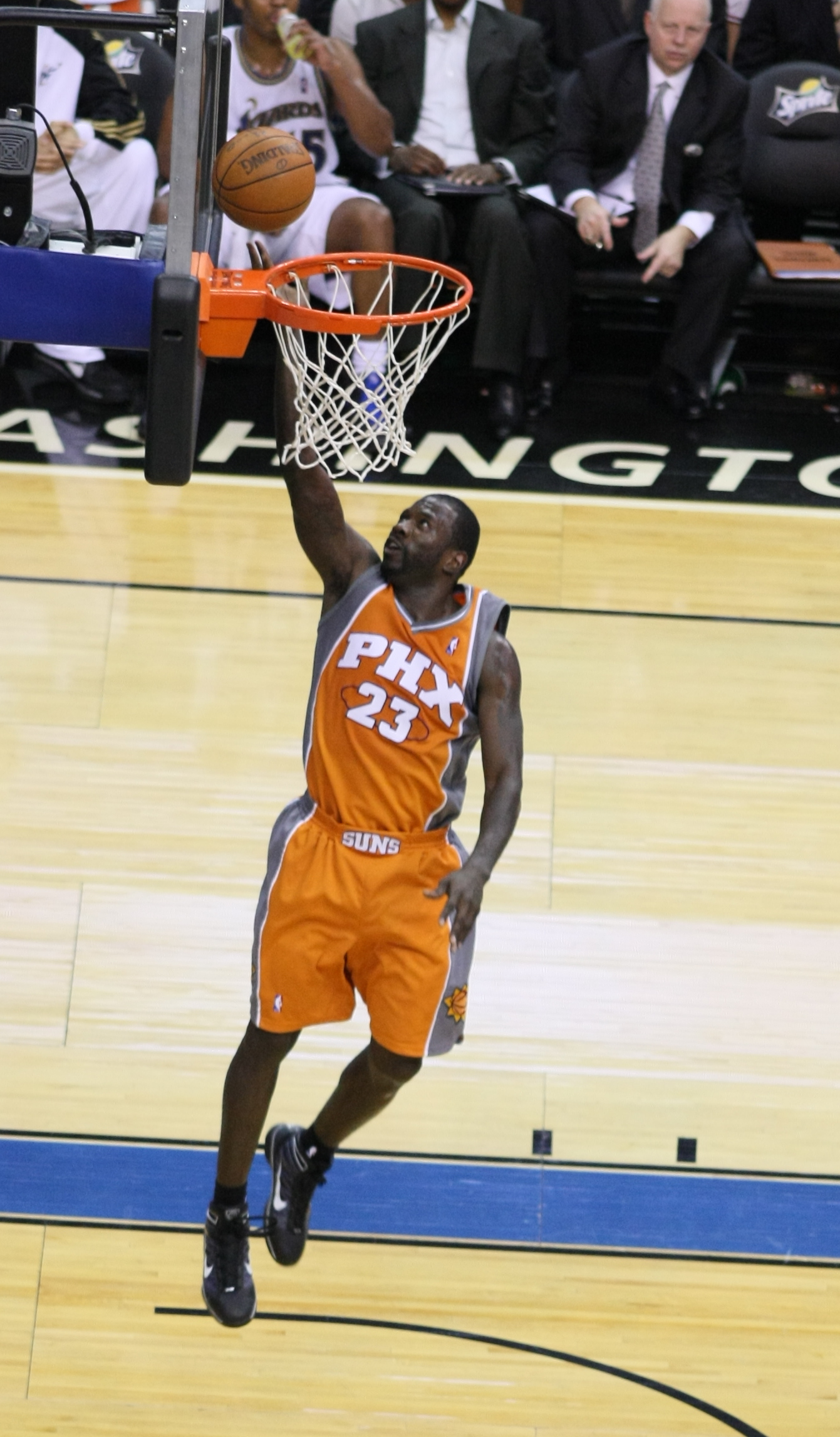 Jason Richardson playing with the Phoenix Suns